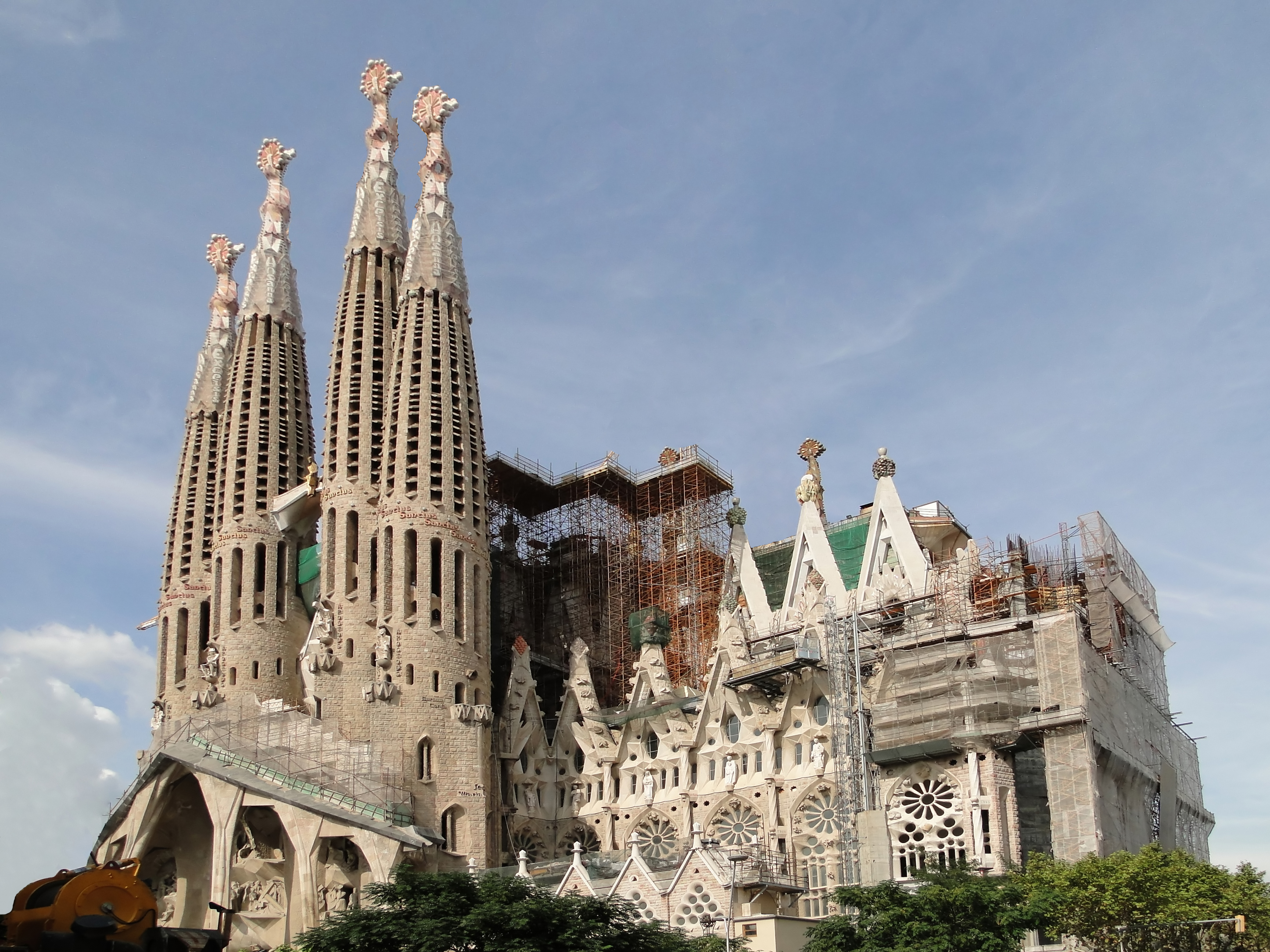 West side of the Sagrada Familia, Barcelona, Spain